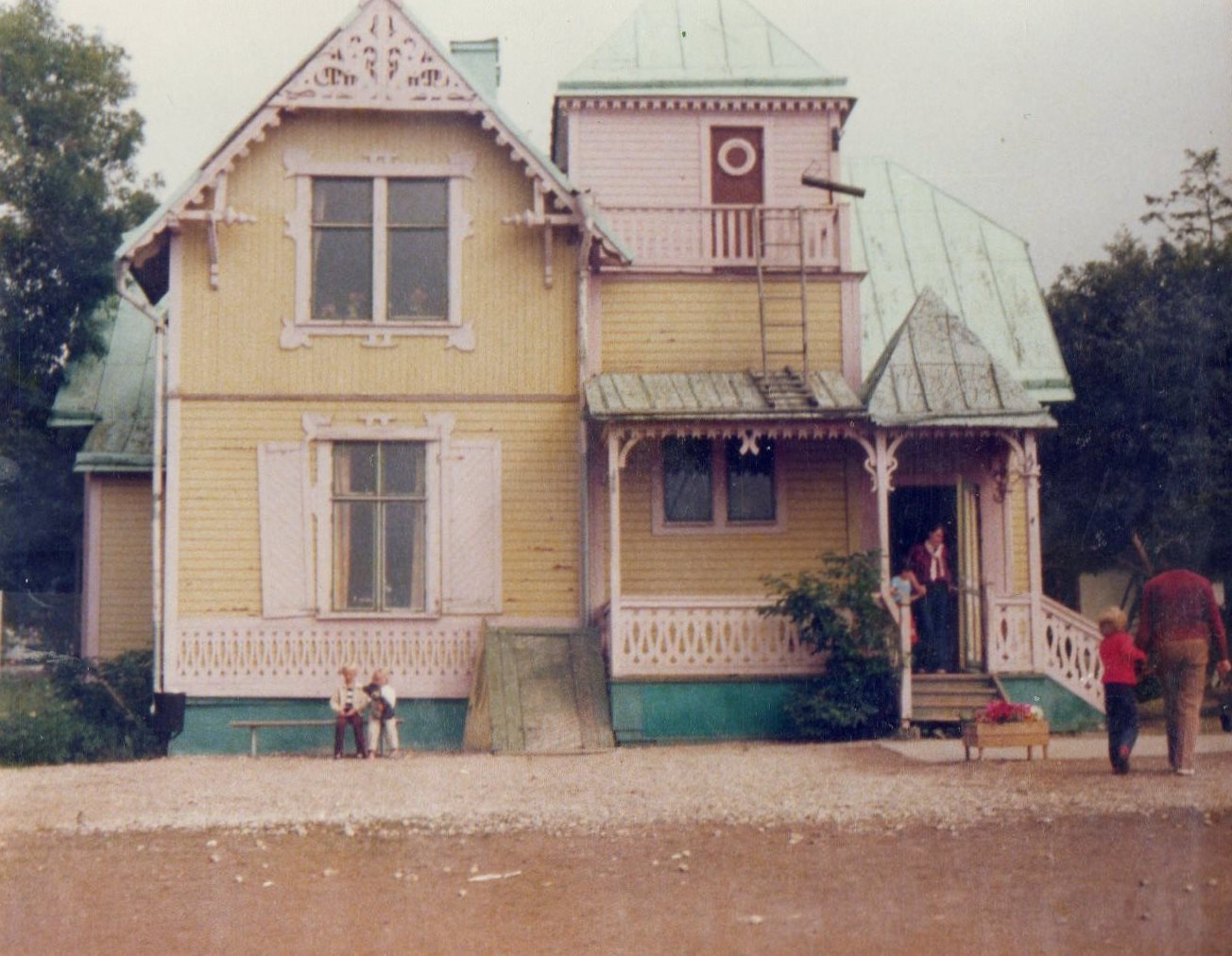 The orginial Villa Villekulla house from the fims and tv-series about Pippi Longstocking.